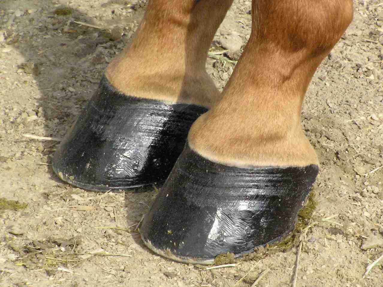 The hooves of a horse that have black hoof polish on them.